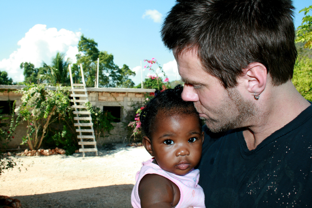 Mark Stuart with Christela in Haiti